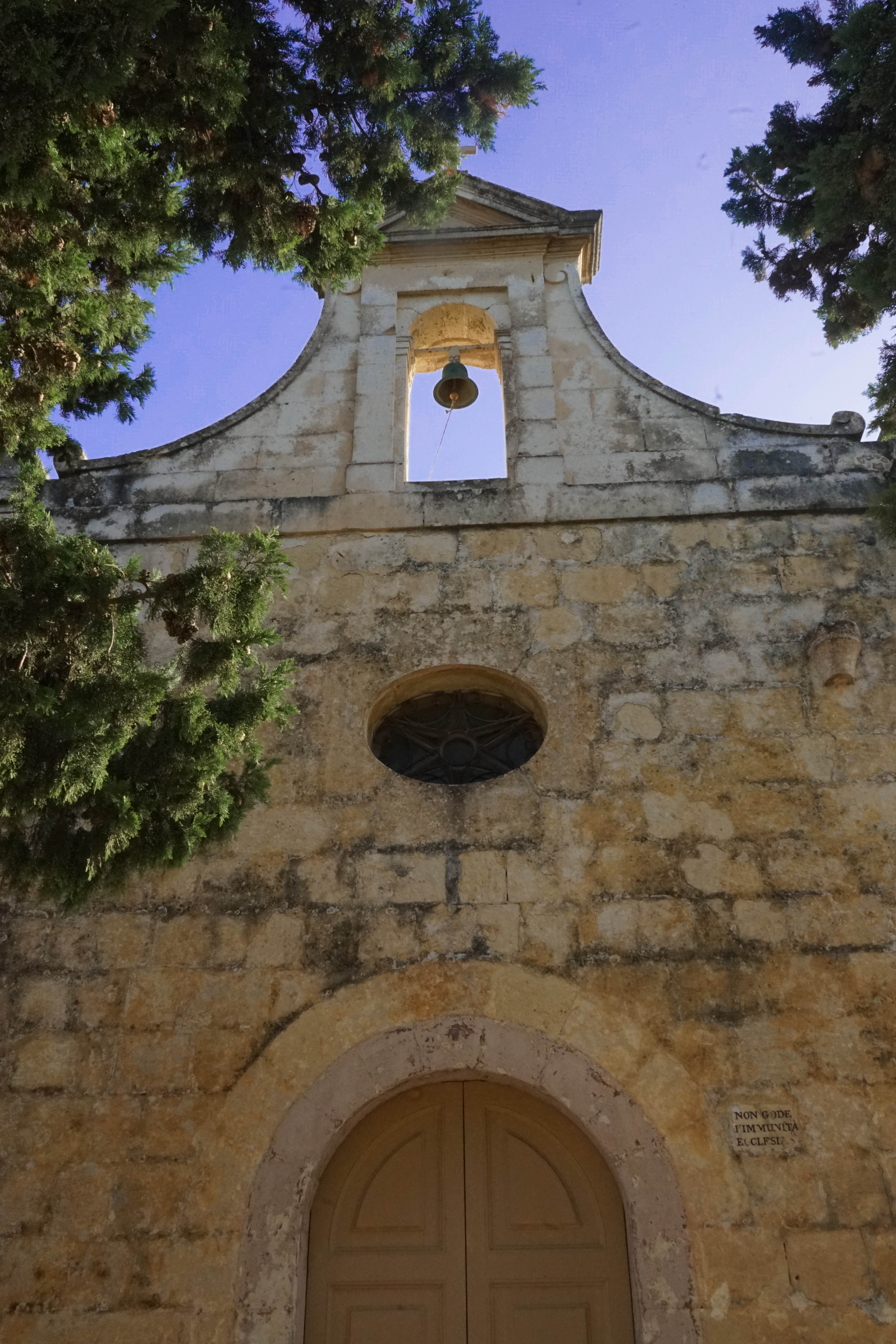 Chapel of the Madonna of Light This media is about Maltese cultural property with inventory number 01723.